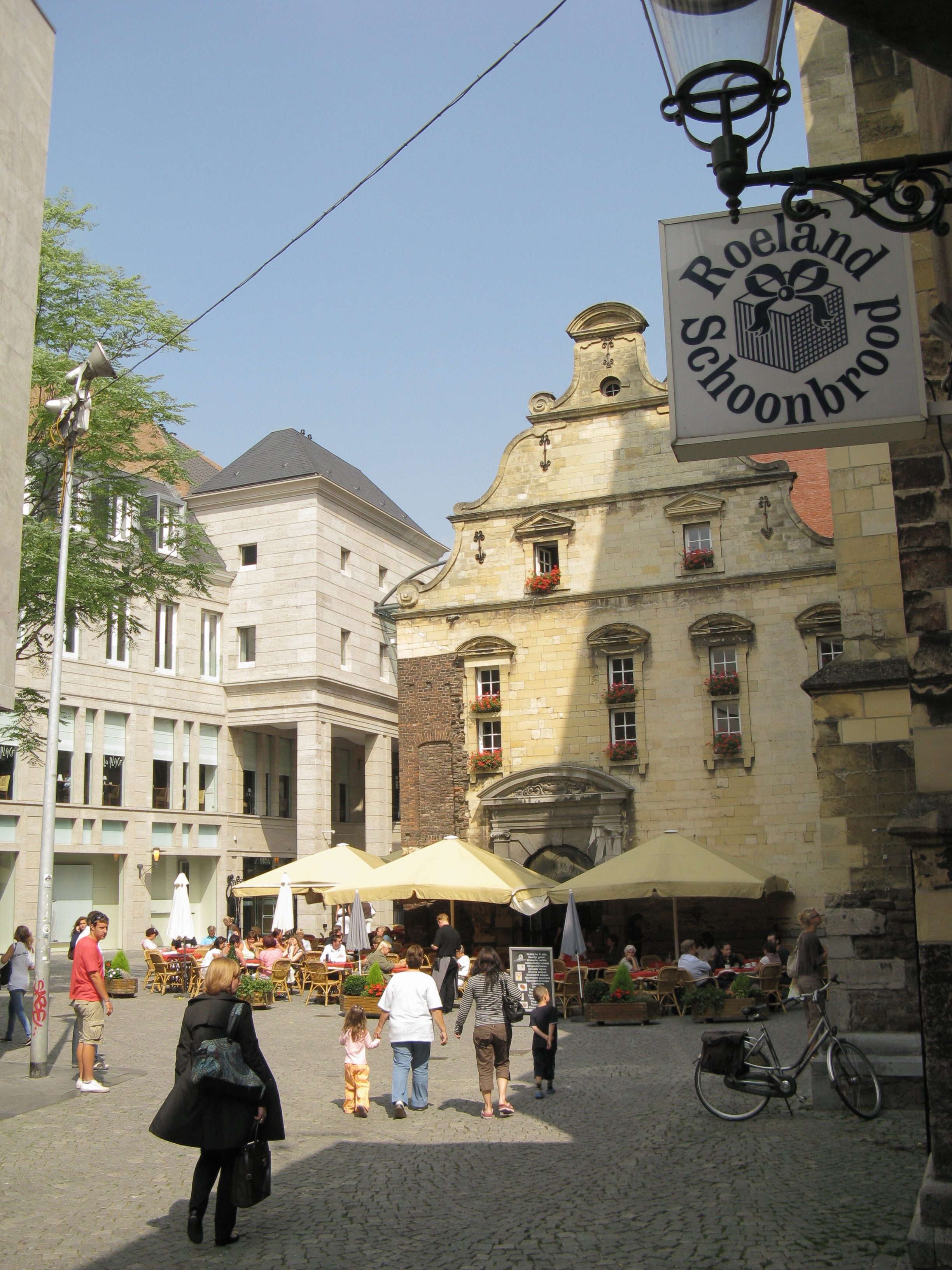 View from the south of the Dominicanenkerkplein in Maastricht, The Netherlands.